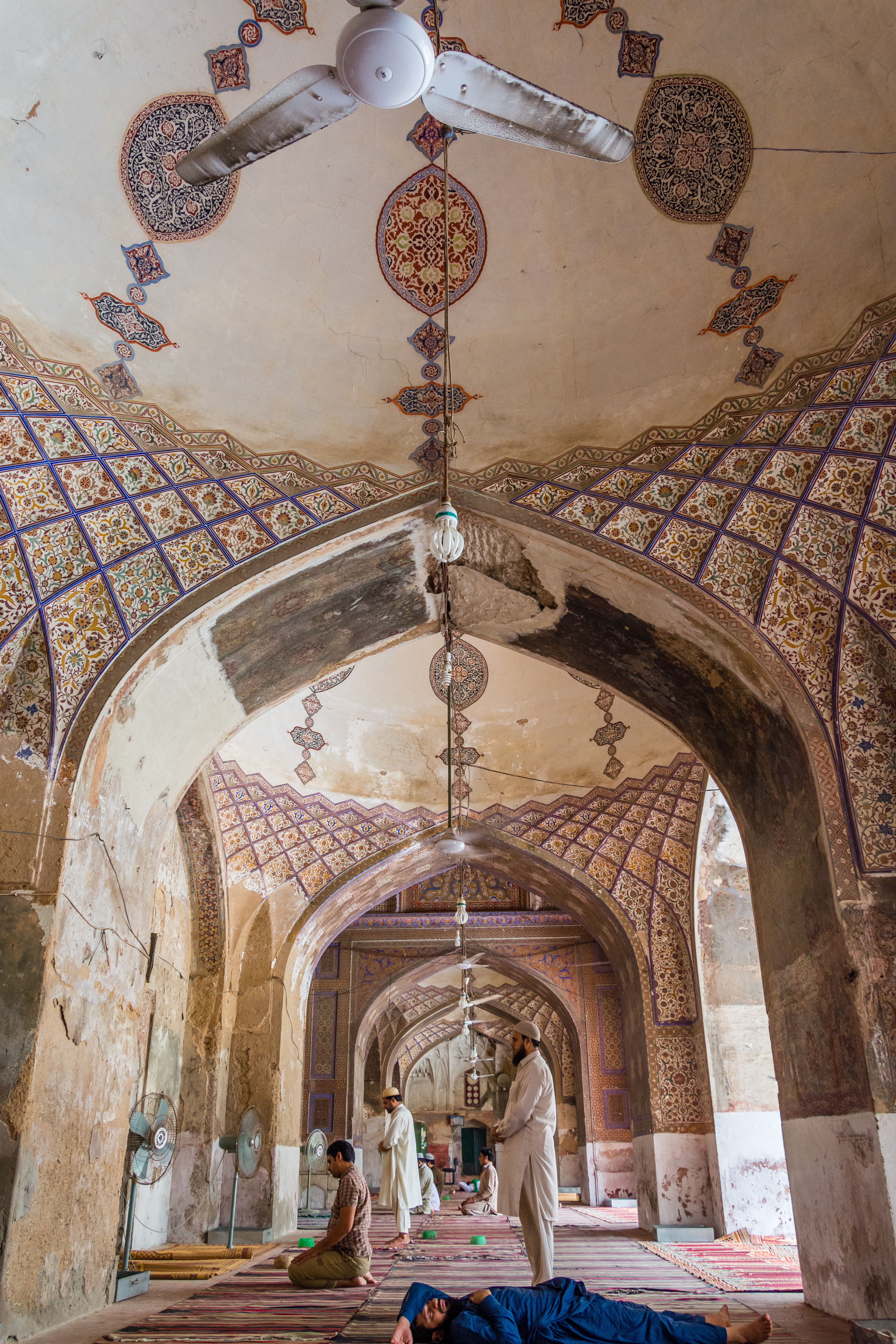 Mosque of Mariyam Zamani Begum This is a photo of a monument in Pakistan identified as the PB-68